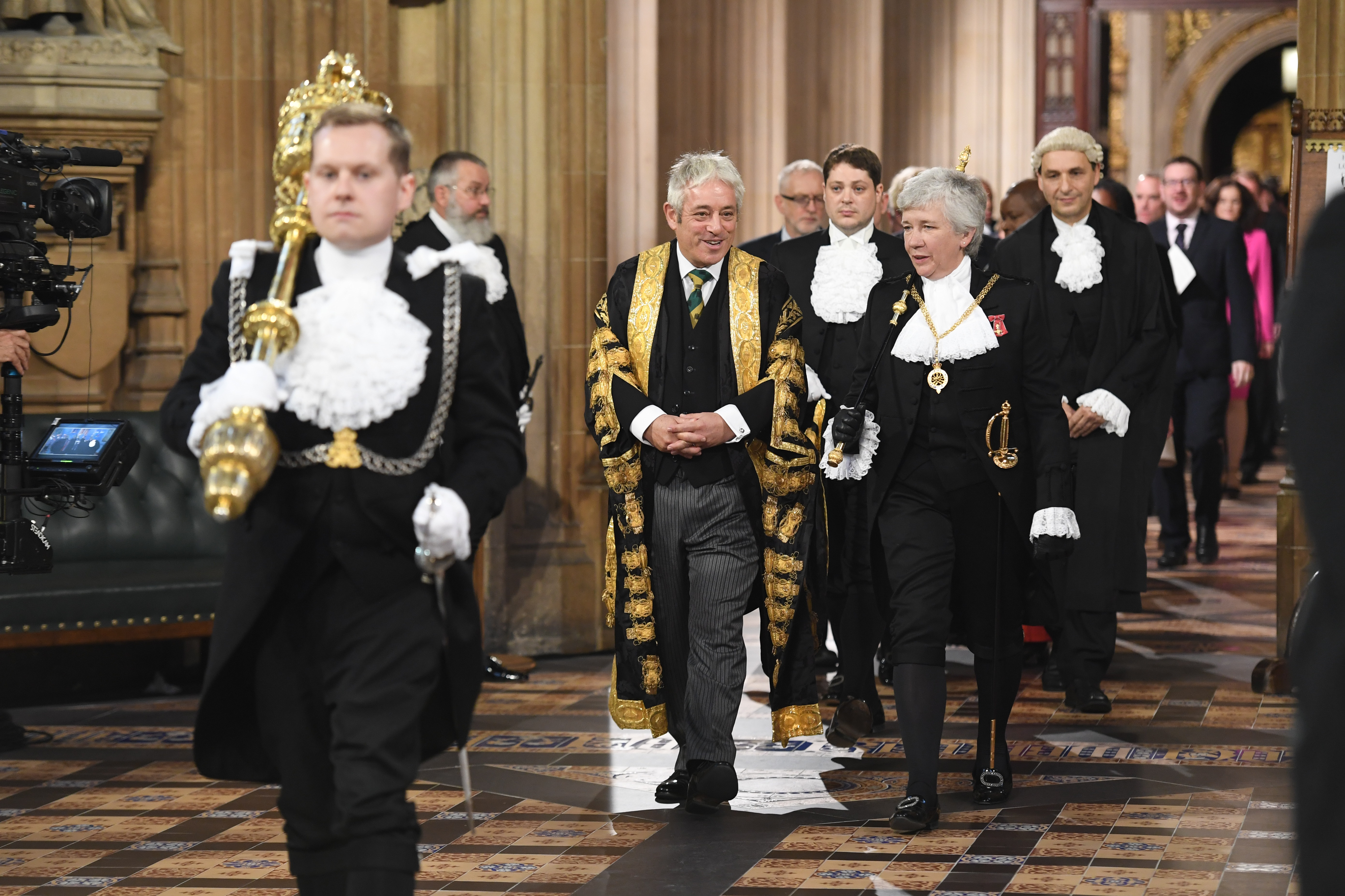 The procession from the Commons chamber to the Lords chamber for the October 2019 state opening, headed by John Bercow (Speaker) and Sarah Clarke (Black Rod)